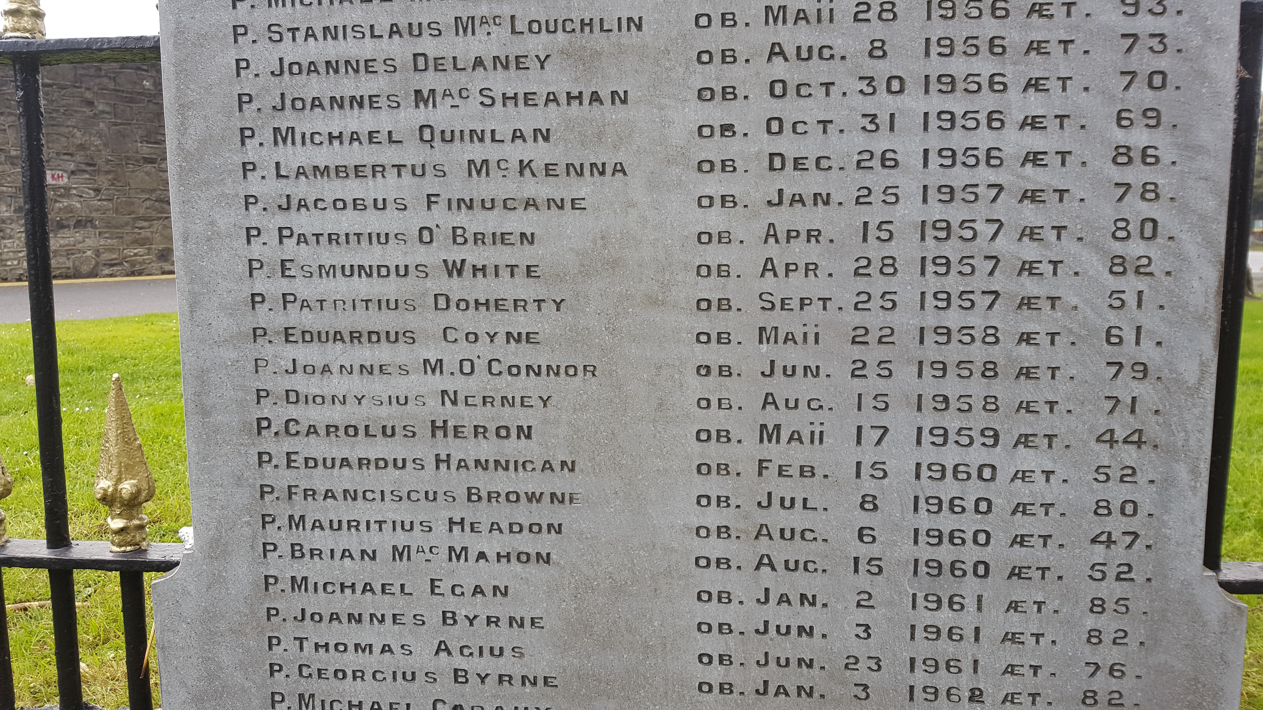 Fr. Francis Browne SJ (1880 – 1960), a distinguished Irish Jesuit and a prolific photographer.